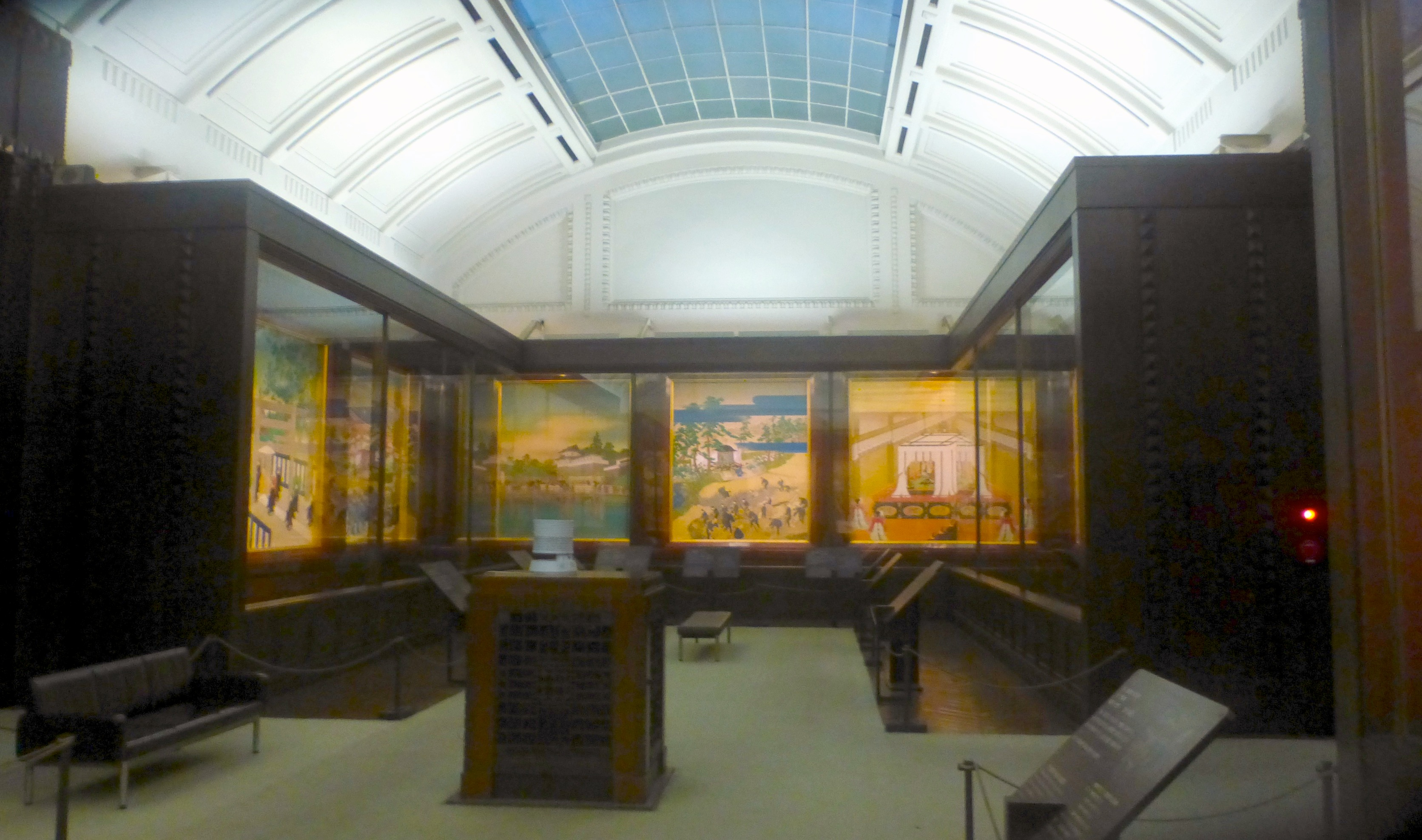 聖徳記念絵画館の中 (Meiji Memorial Picture Gallery interior)